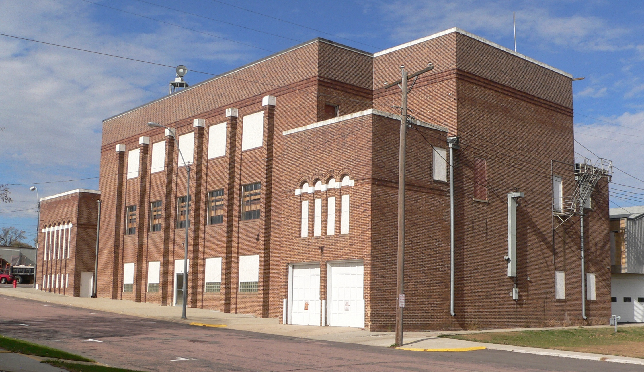 City auditorium, former city hall, in Hartington, Nebraska; seen from the southeast.